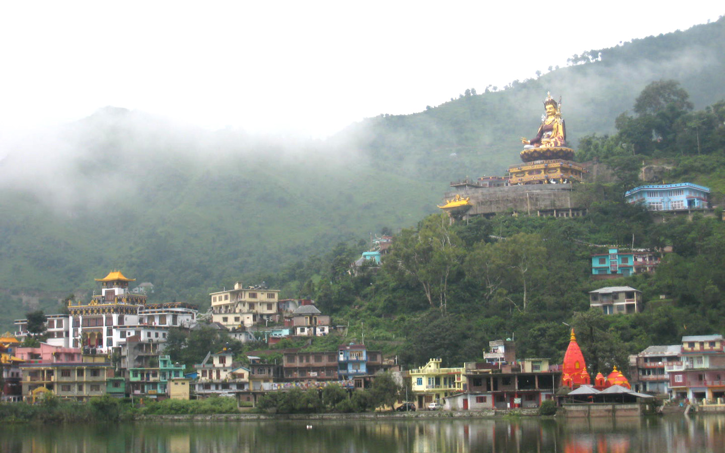 View on Padmasambhava statue from across the Rewalsar Lake (Tibetan:Tso Pema, also: Lake of Mandarava) in Rewalsar, a pilgrimage town in Himachal Pradesh, India.